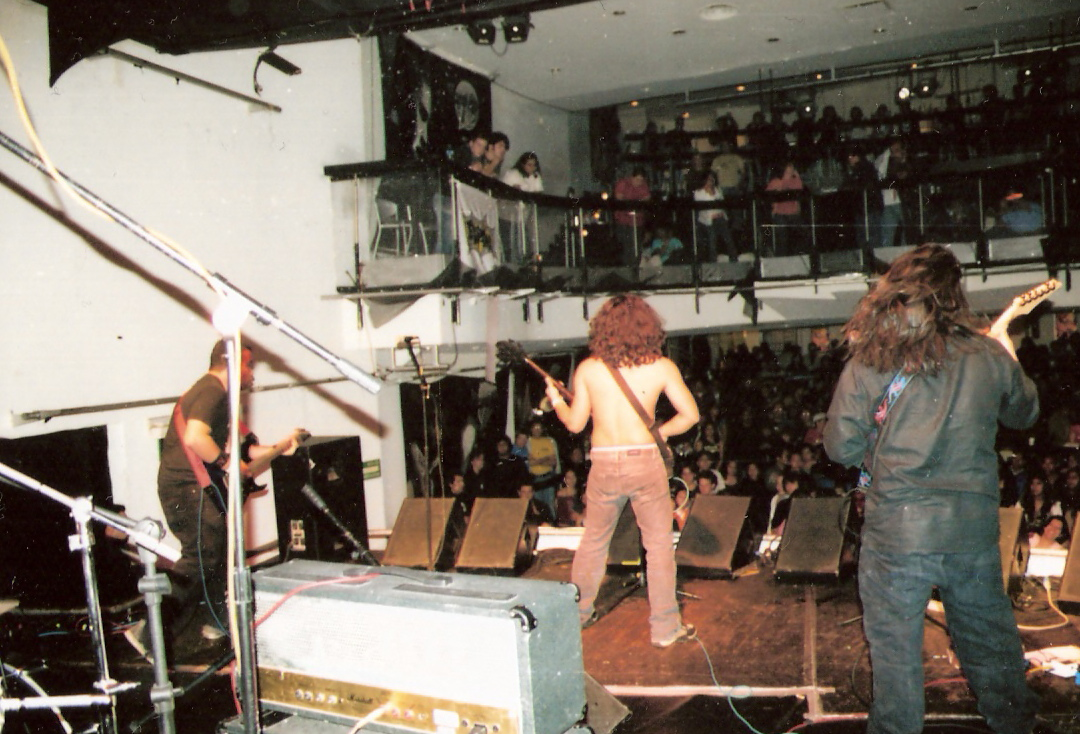 Valhalus@hard Rock Live Mexico city